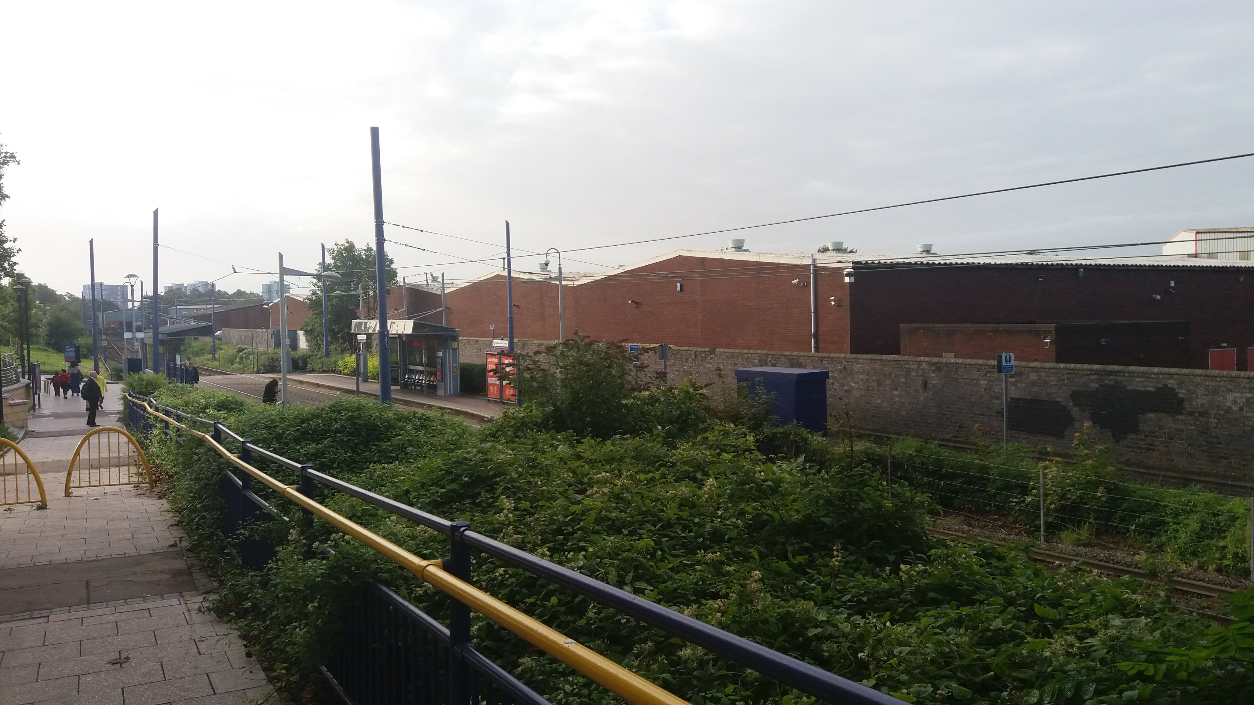 My own.